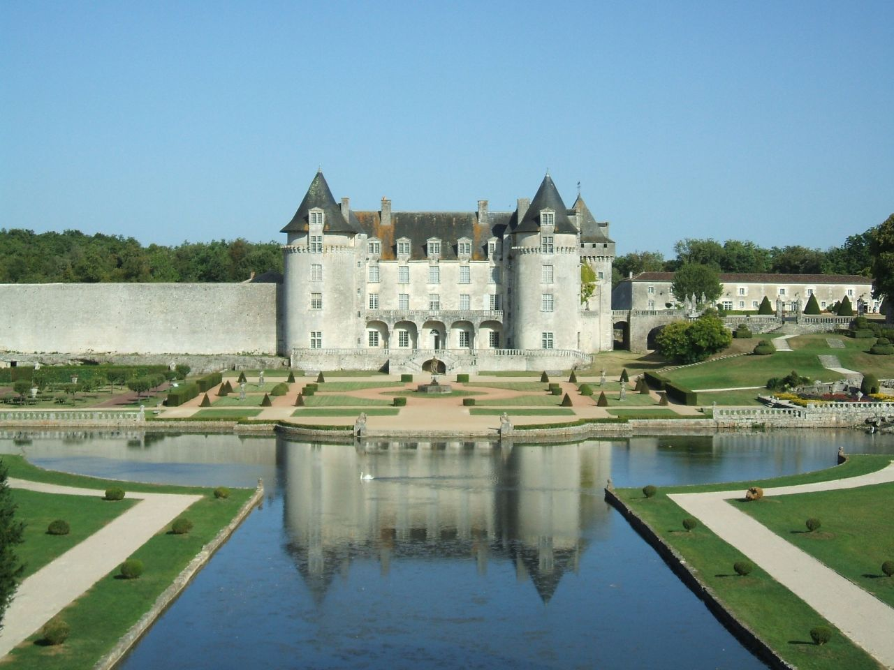 The Château de La Roche-Courbon, Charente, garden front